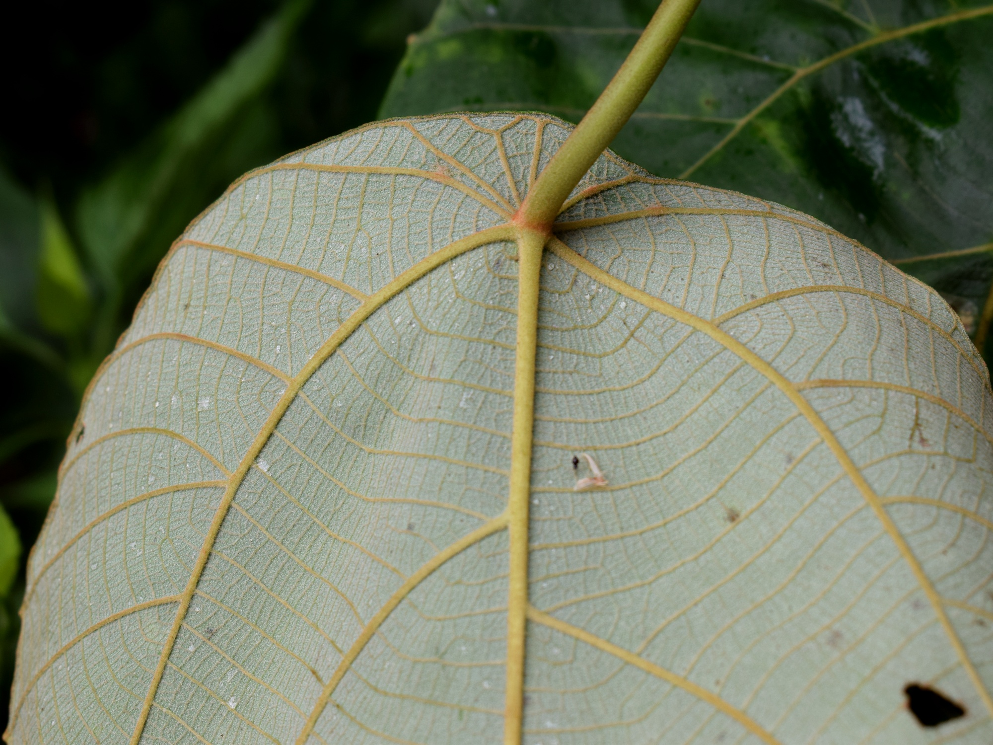 Macaranga rhizinoides; leaf underside. From Mt. Tangkubanprahu, Subang, West Java, Indonesia.